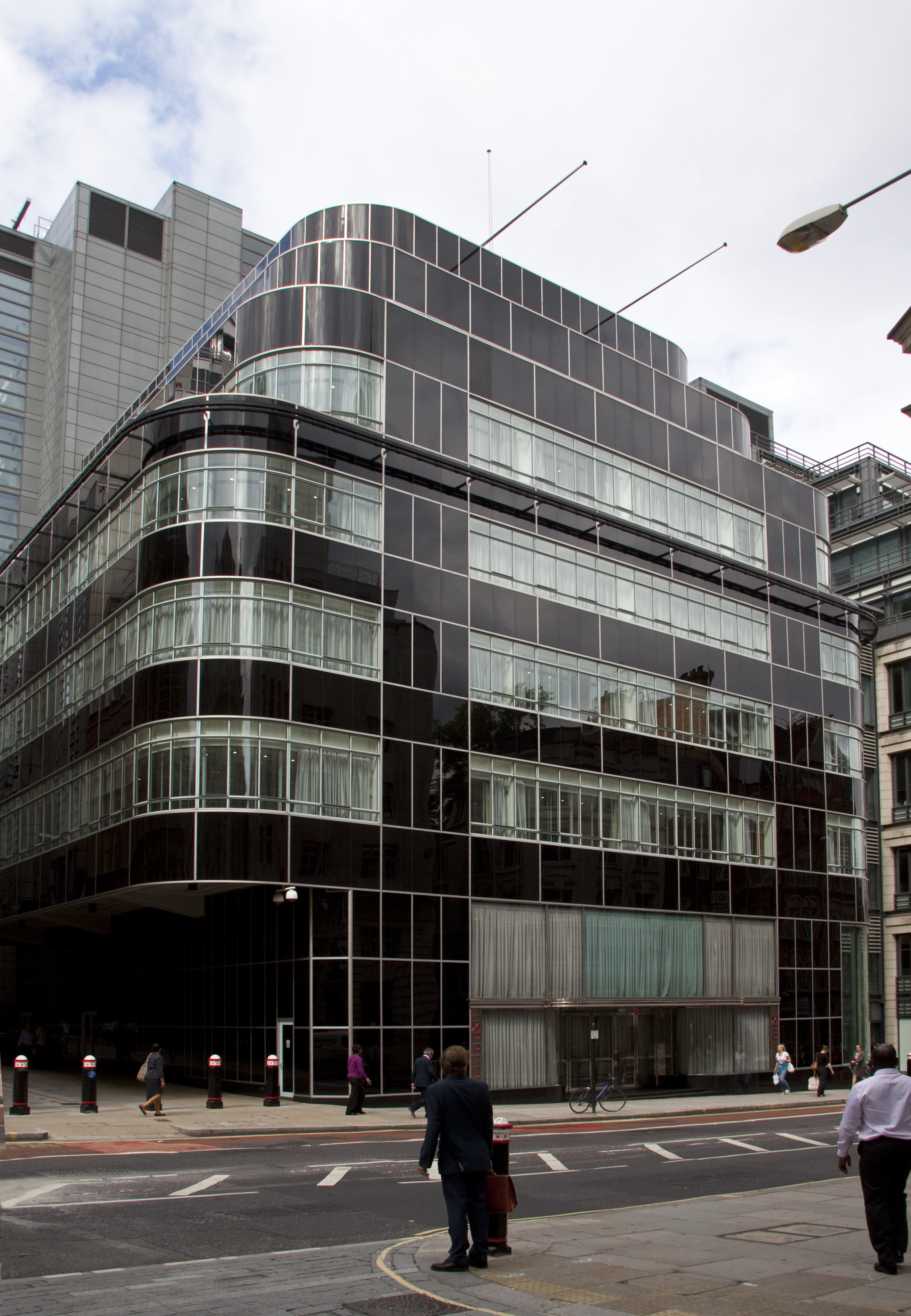 The former Daily Express Building, 121-128 Fleet Street, London